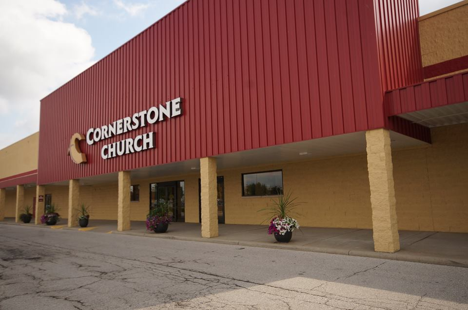 Cornerstone Church Toledo from the Parking Lot